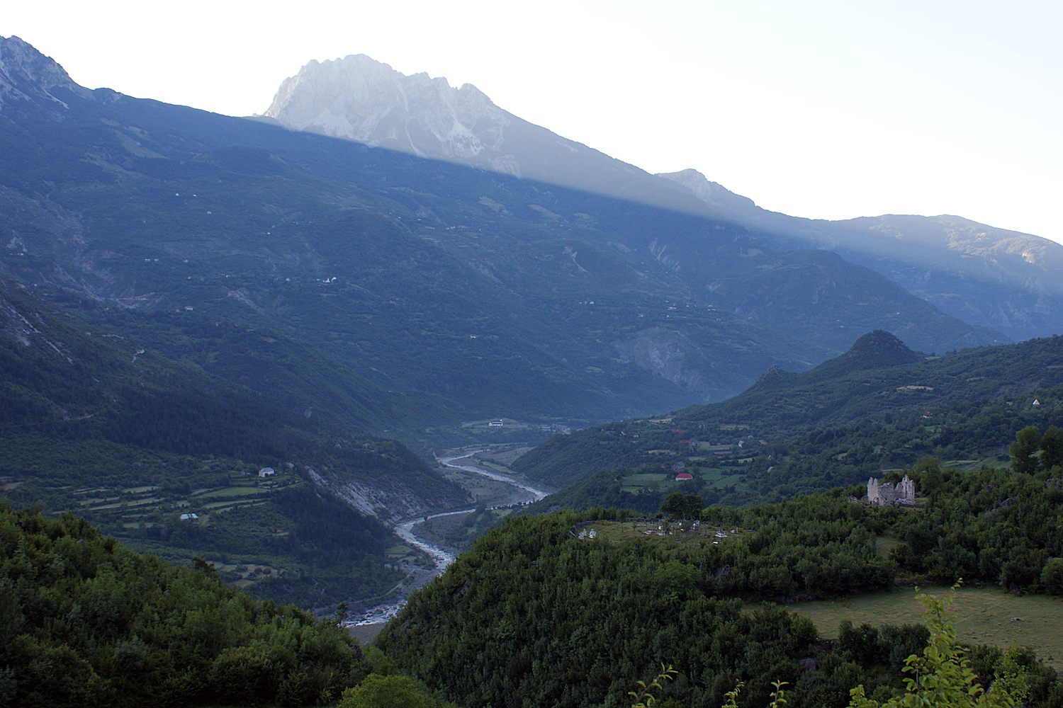 Sunrise above the Shala valley in Northern Albania. Mountains: Maja Ershelit (2125 m), behind hardly visible Maja Agruerit (1615 m)